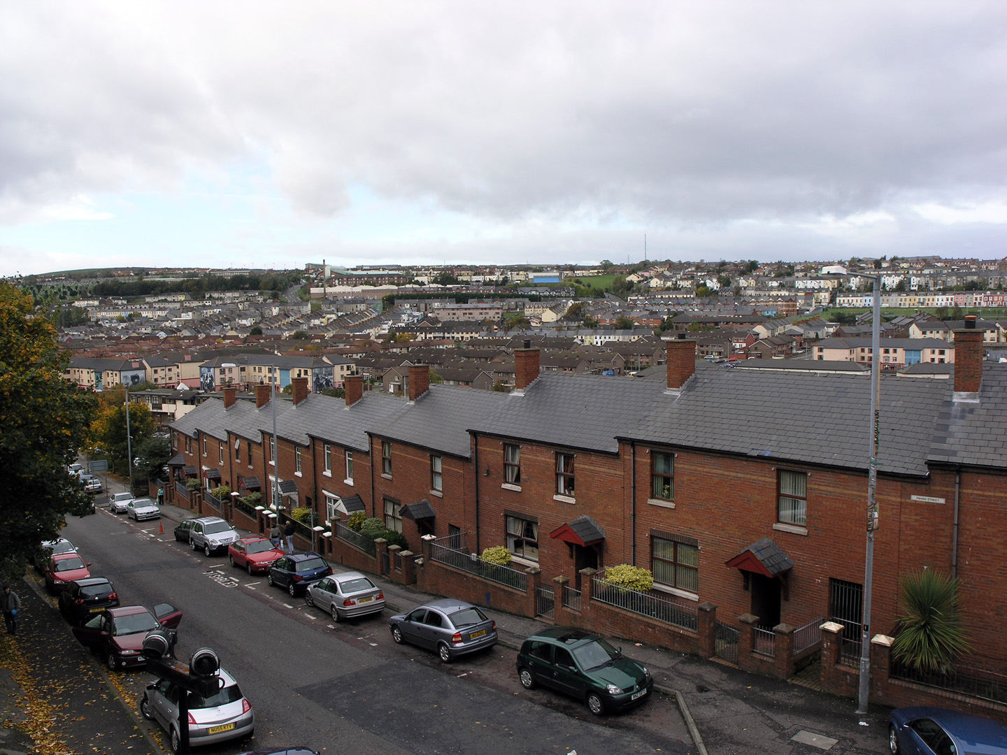 The Bogside area of Derry, taken by me SeanMack, Oct 2005.